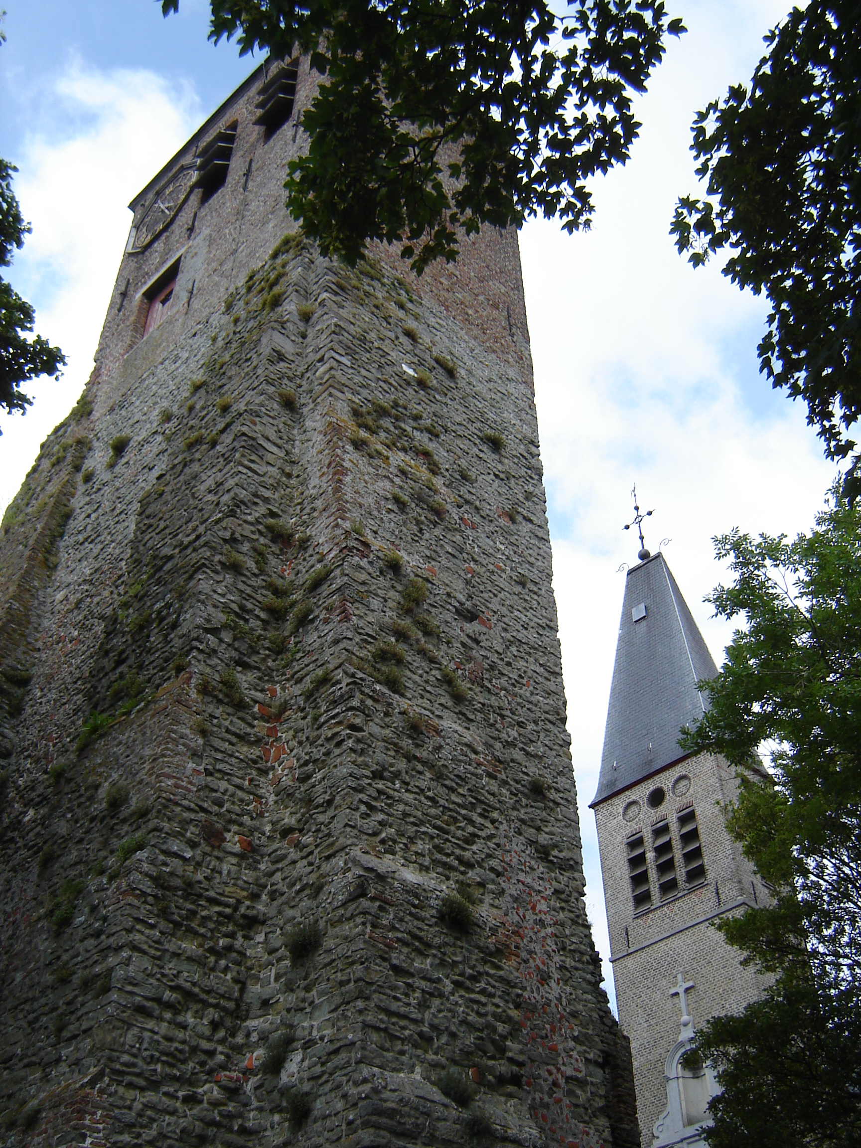 Old and new tower of the church of Saint Peter in Chains in Dudzele, Brugge, West-Flanders, Belgium.